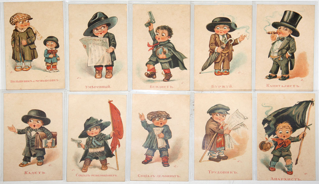 Vladimir Taburin's postcards of children representing different political ideologies